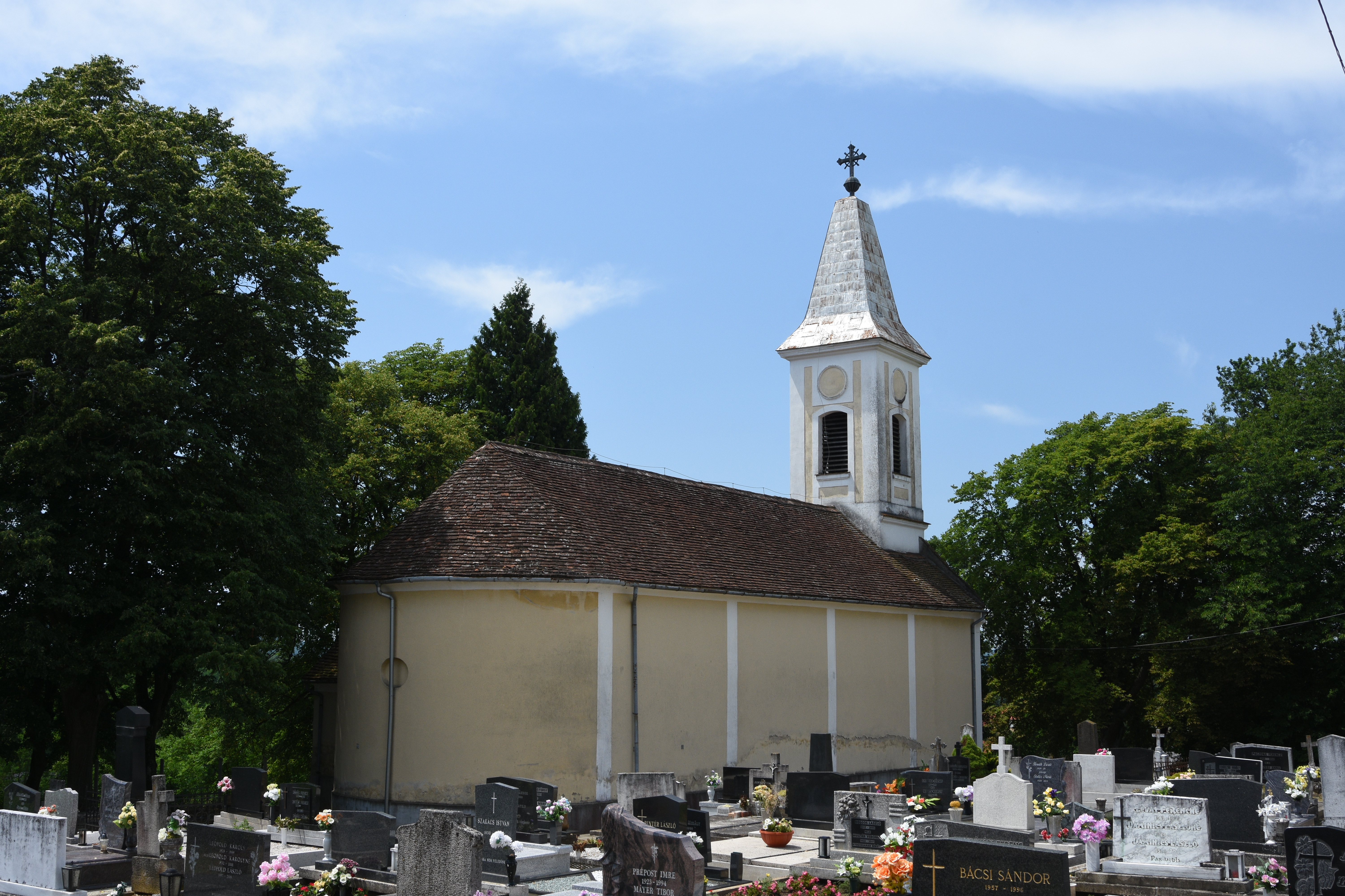 Vasszentmihály